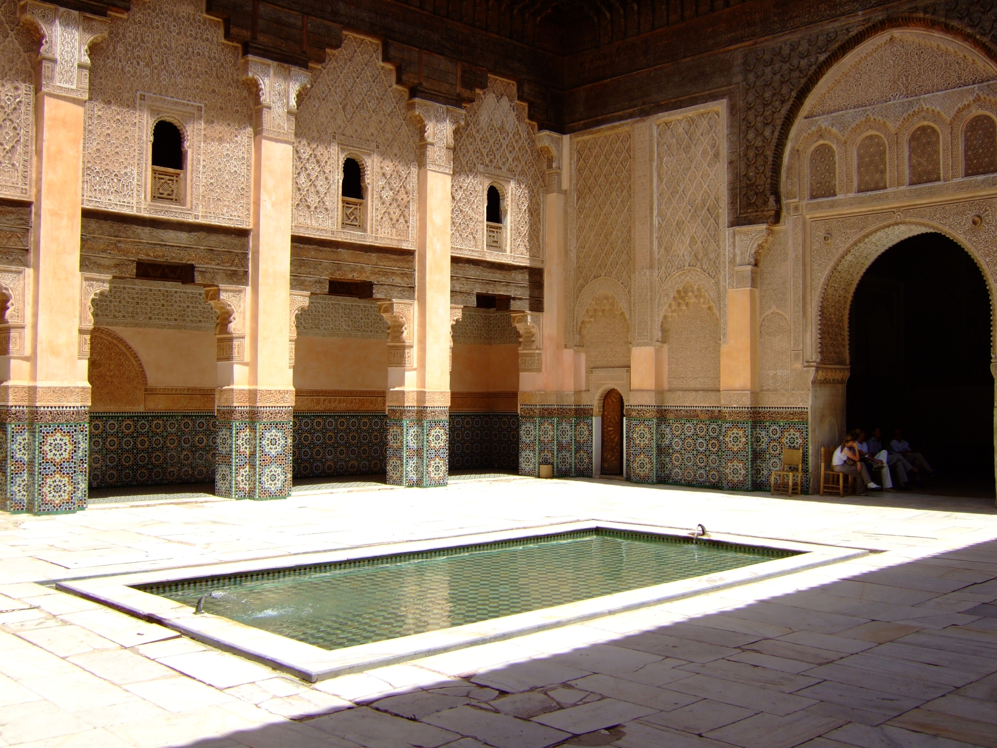 Medersa Ben Youssef, Marrakech, Morocco. inside courtyard